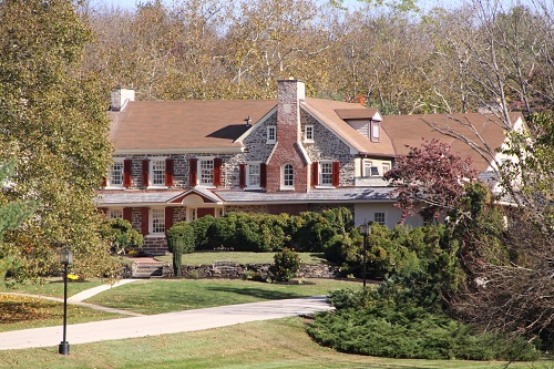 Valley Forge Medical Center & Hospital The main structure of the building is that of David Rittenhouse's original farm house.